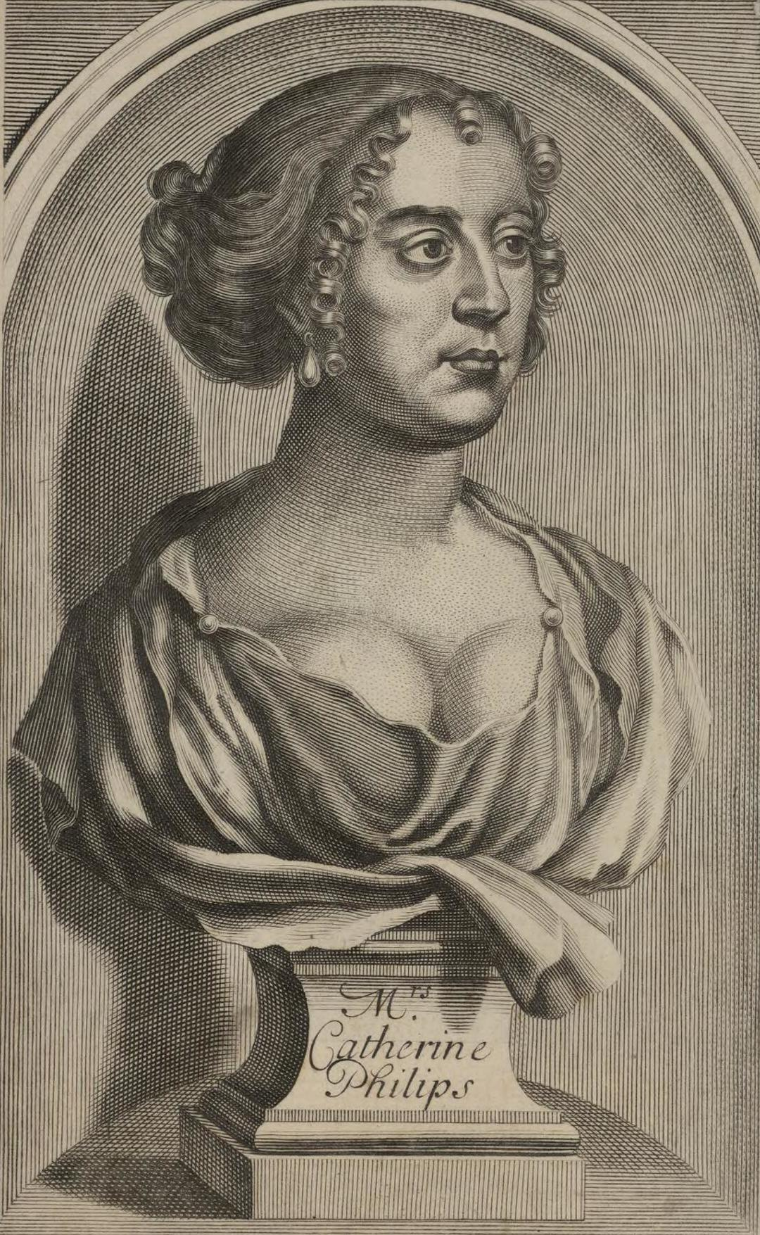 A portrait from the Welsh Portrait Collection at the National Library of Wales. Depicted person: Katherine Philips – Anglo-Welsh poet and translator